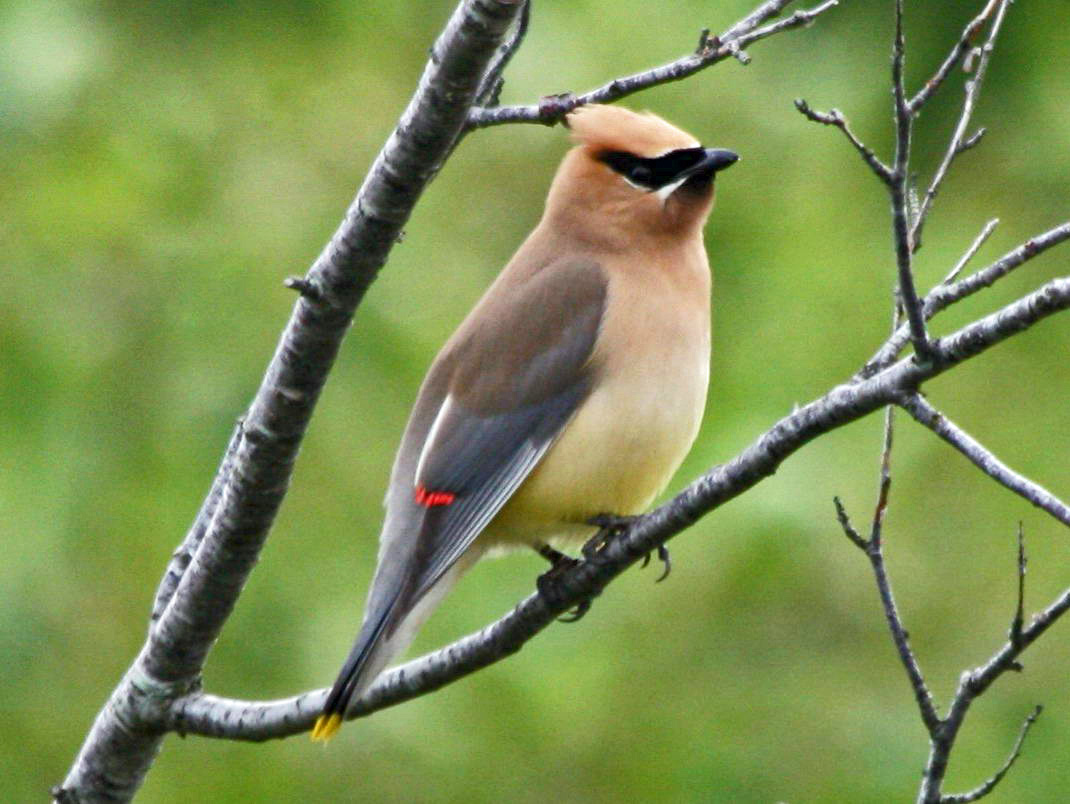 Cedar Waxwing (Bombycilla cedrorum) - Acadia National Park, Maine